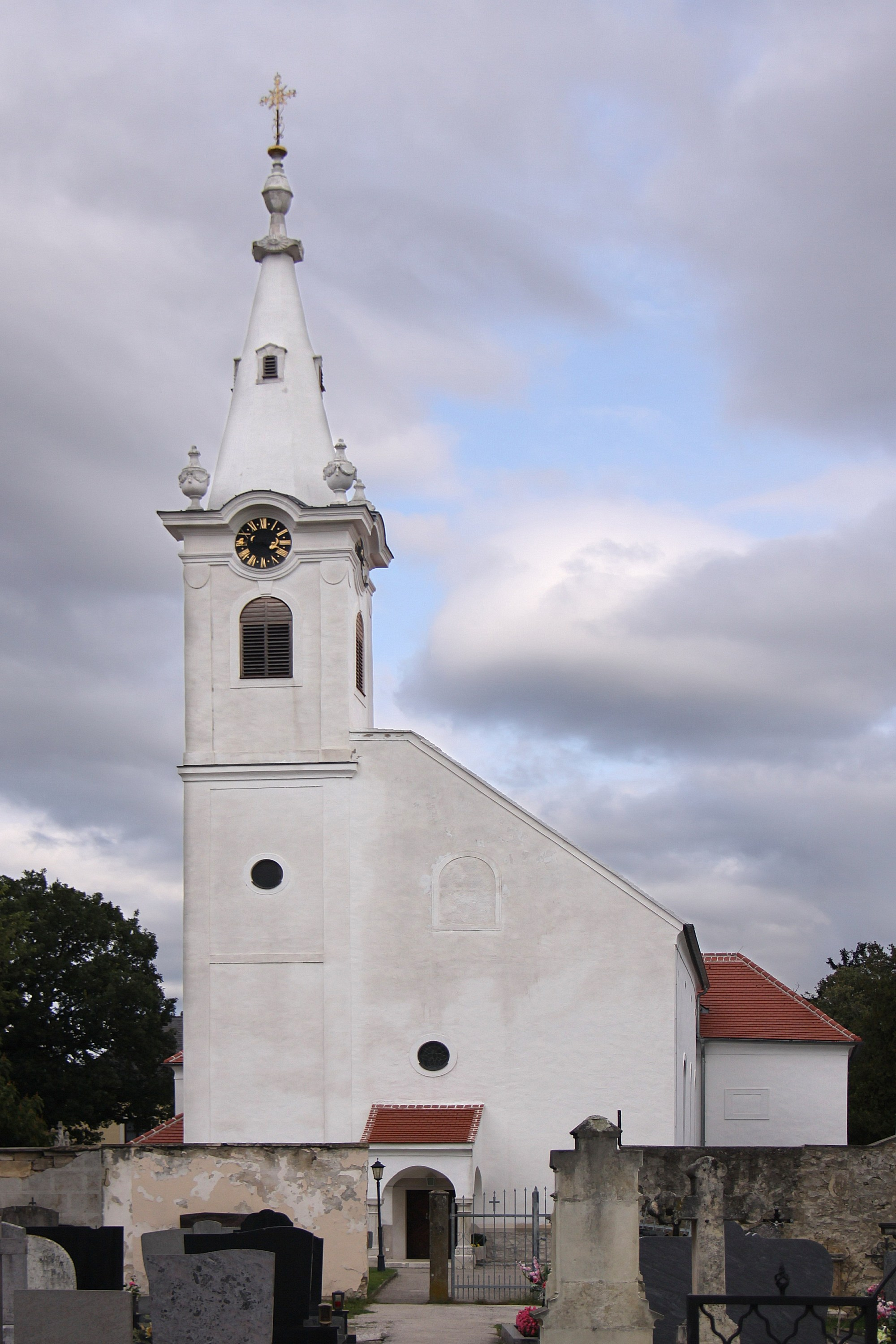 Parish church Feast of the Cross - Wulkaprodersdorf. Object location47° 47′ 35.98″ N, 16° 29′ 40.78″ E